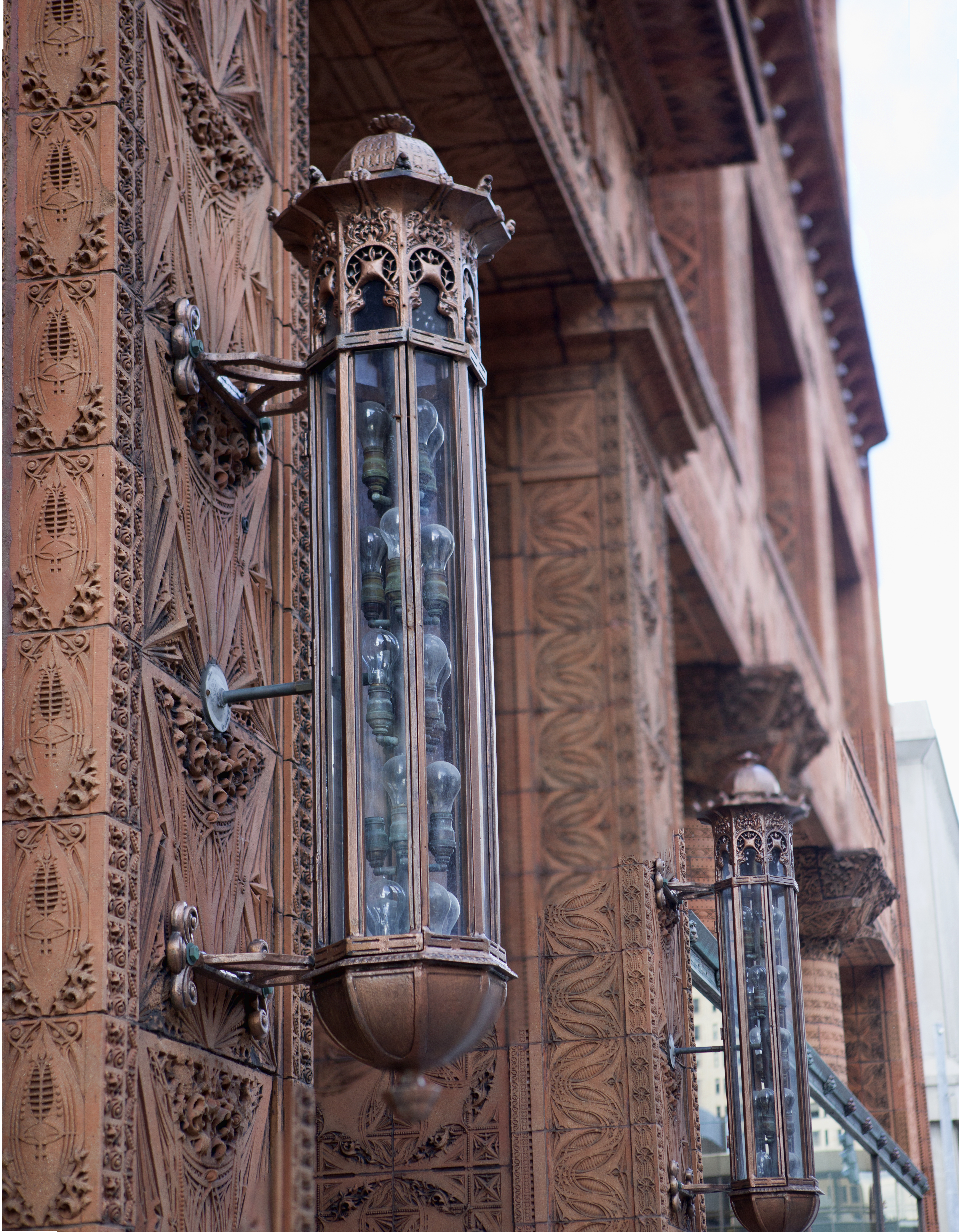 Architectural detail in the Prudential Guaranty Building, in downtown Buffalo, New York.